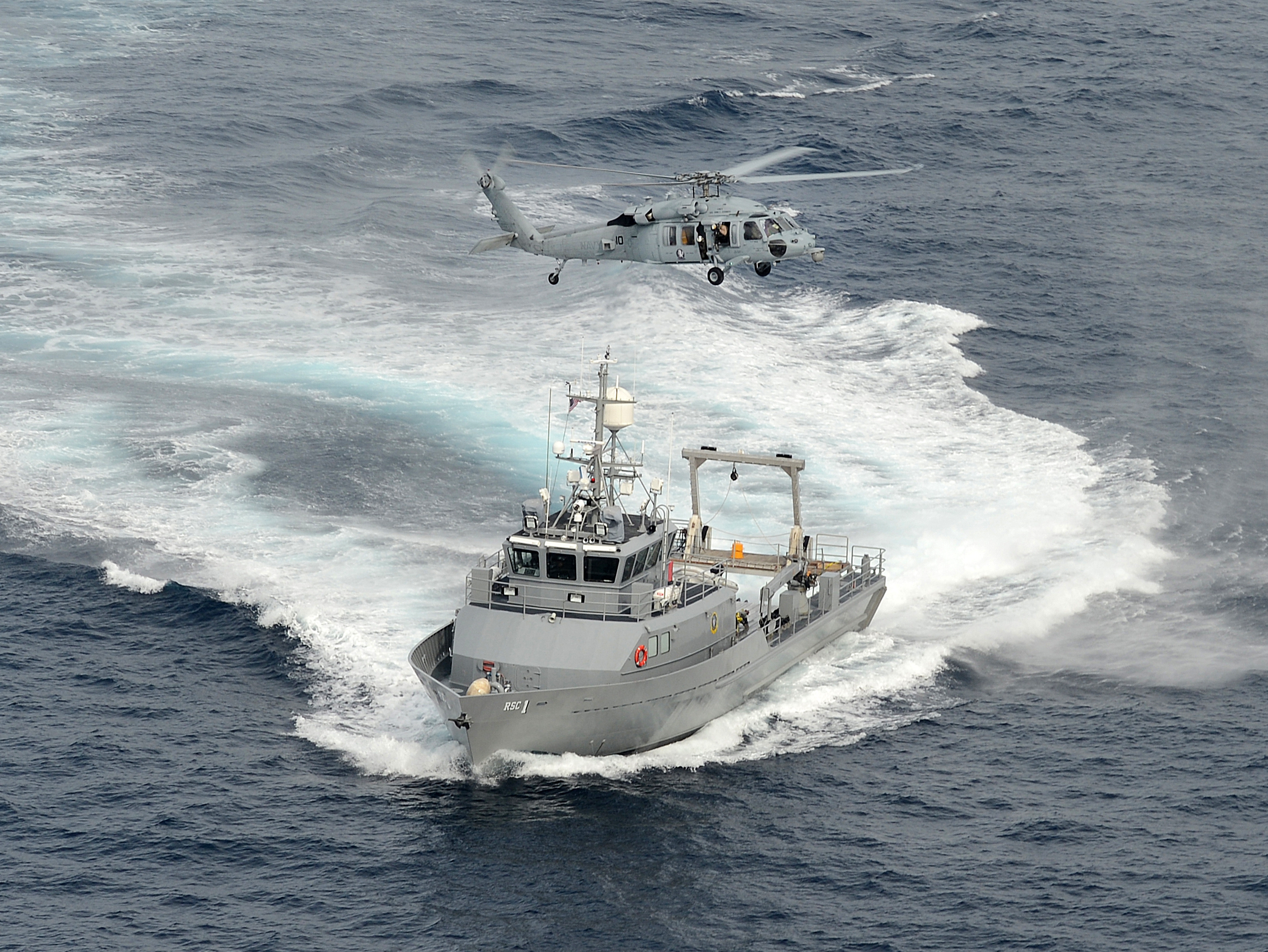 A U.S. Navy Sikorsky MH-60S Seahawk helicopter from Helicopter Sea Combat Squadron (HSC) 14 "Chargers" hovers over Range Support Craft (RSC) 1 in the Pacific Ocean off the coast of San Diego (USA). HSC-14 and of Helicopter Maritime Strike Squadron (HSM) 71 "Raptors" were conducting helicopter visit, board, search, and seizure training. The exercise was part of the Helicopter Advanced Readiness Program (HARP) in preparation for an upcoming deployment.